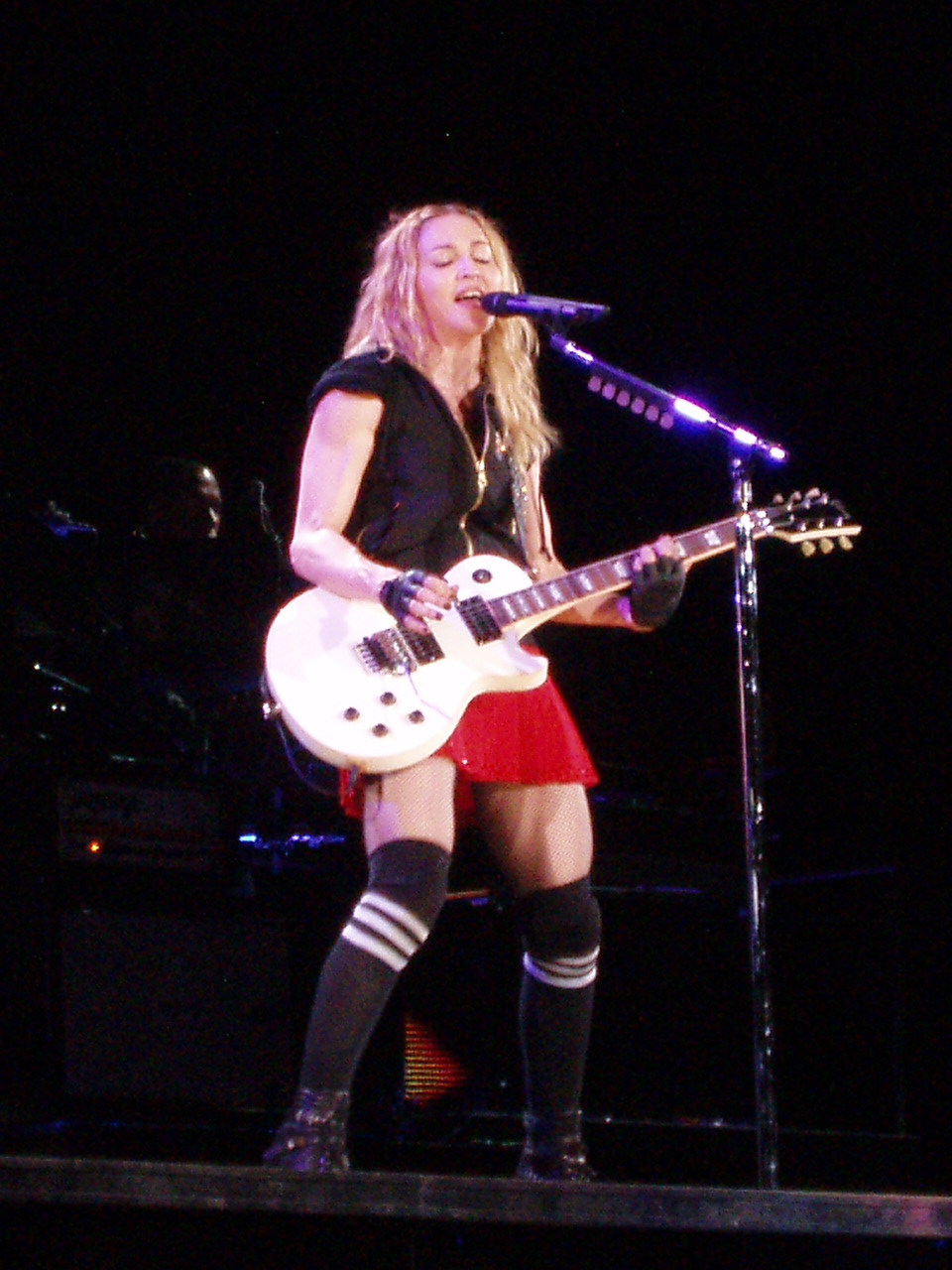 Madonna, Estadi Olímpic de Montjuïc 21 julio 2009